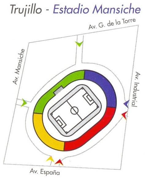 Generic image of the estadio mansiche. Anyone who has an actual photo of this stadium may upload it in place of this one.